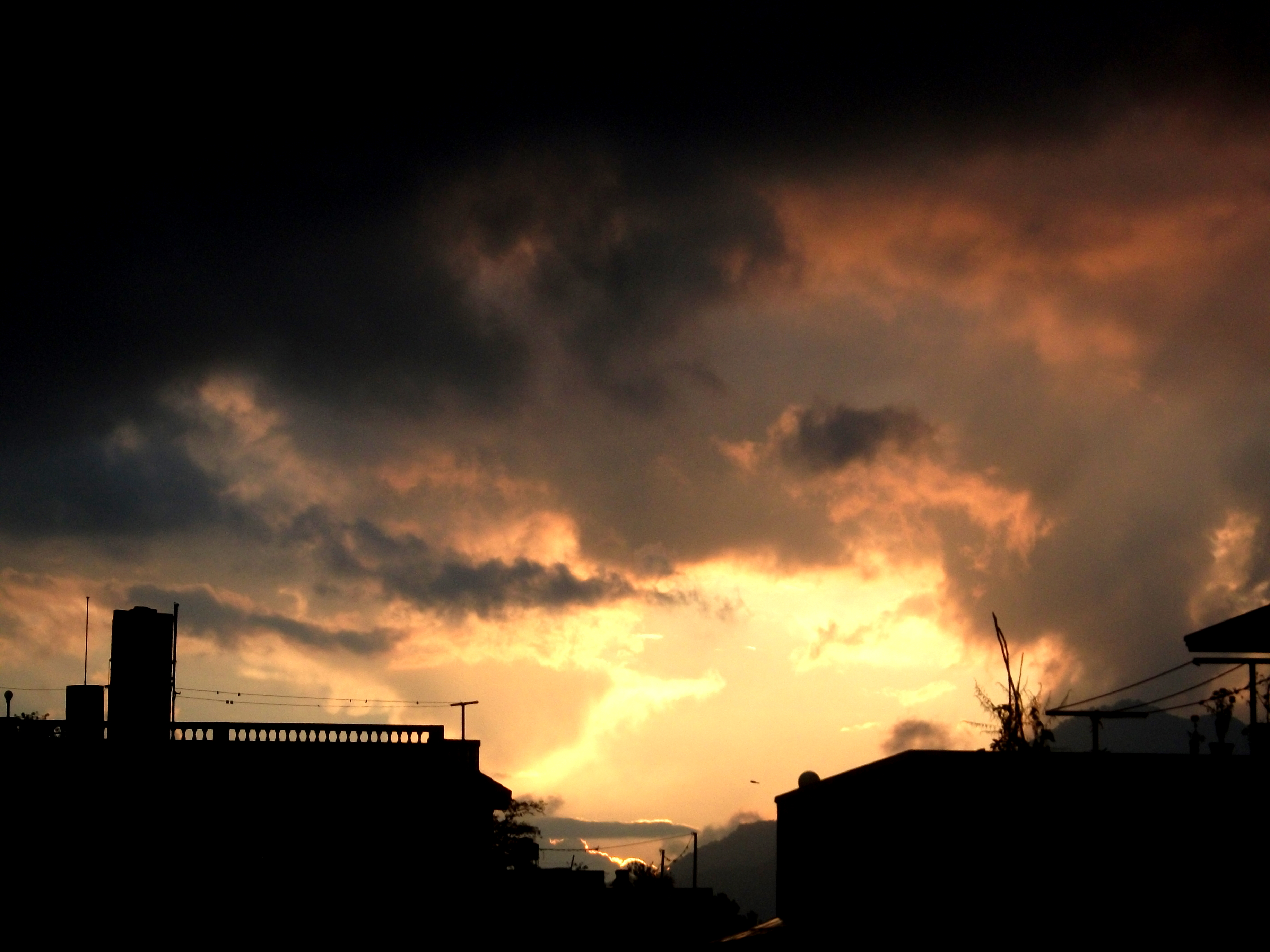 Dusk arrives where clouds appear to come near the hills while houses become silhouetted against the sky.